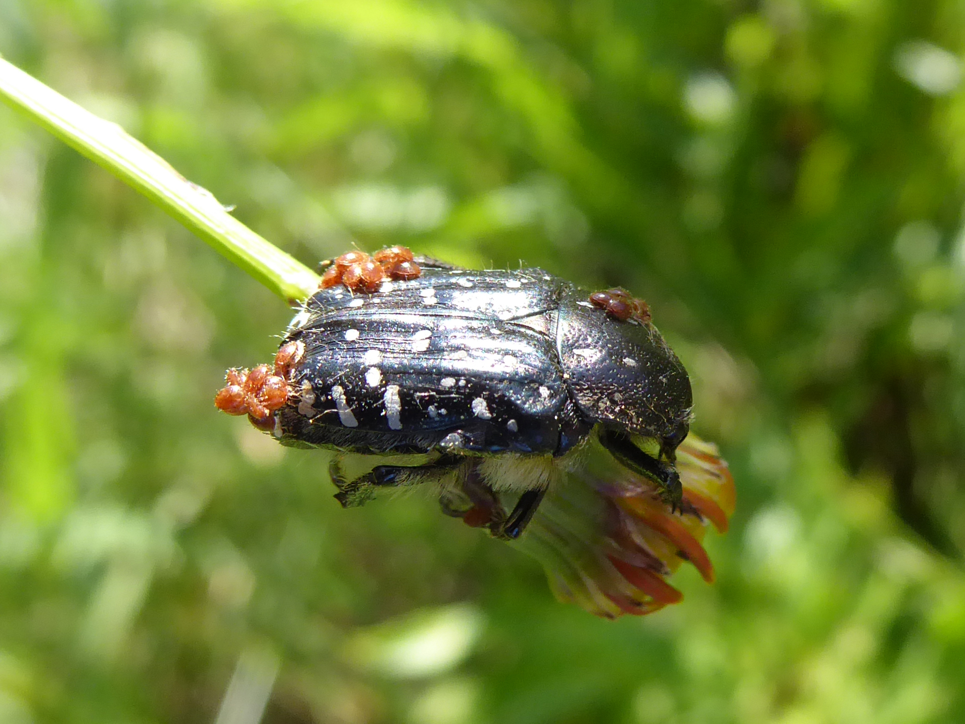 Oxythyrea funesta parasitized by several mites of the species Uropoda orbicularis (Piazzo, Segonzano, Trentino, Italy)